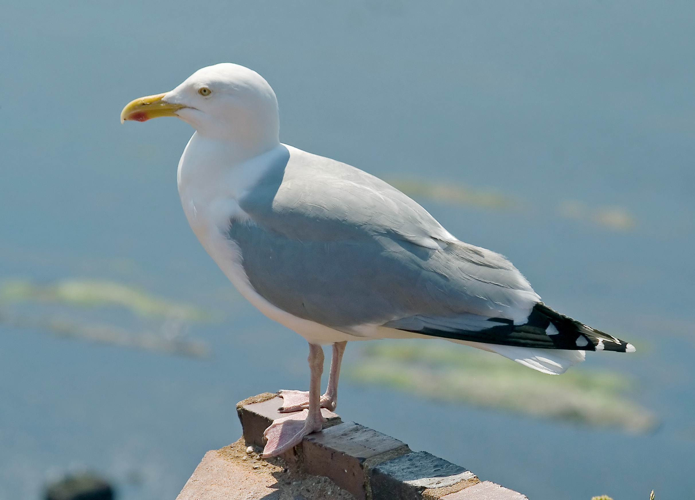 Herring Gull